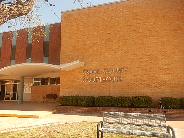 I took photo of Crane County Courthouse, Crane, TX, with Nikon camera.